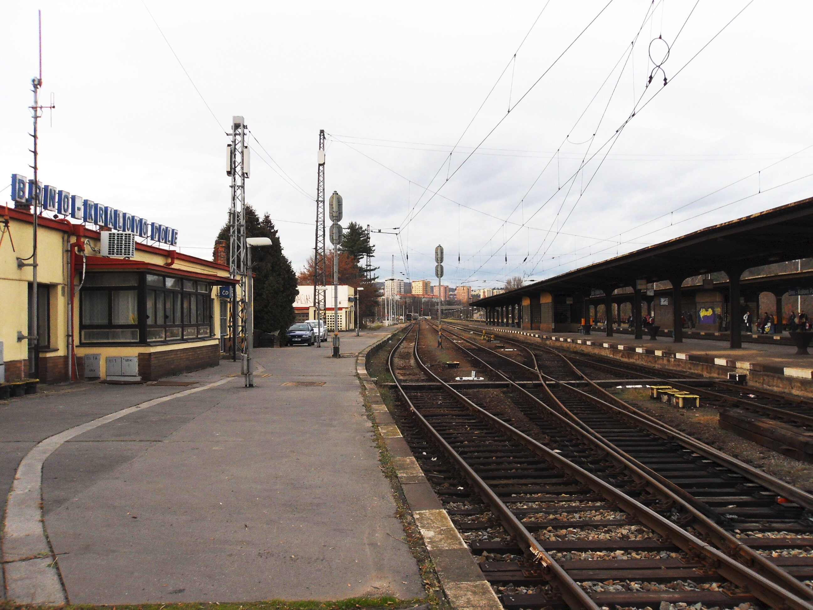 Train station Brno-Královo Pole, Brno, Czech Republic